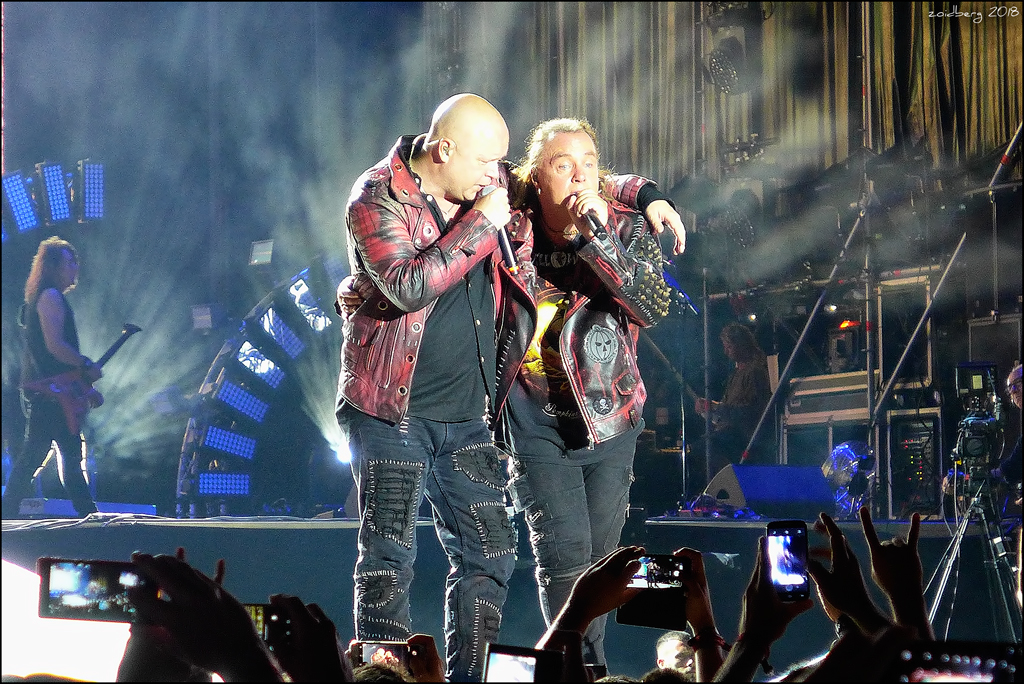 live RockFest Barcelona, 6-7-2018